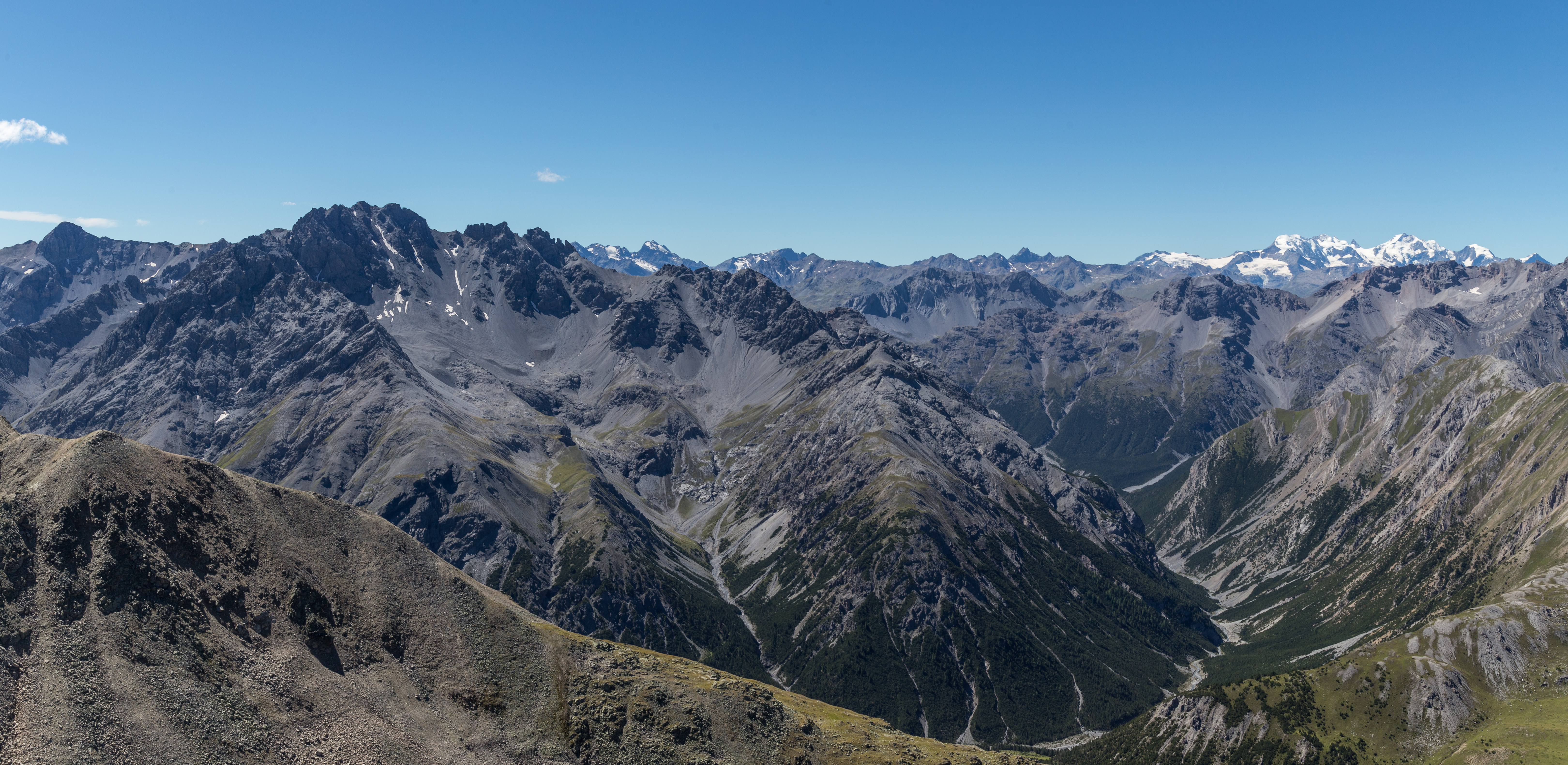 View of Piz Murtaröl (left) and the lower part of Val Mora, seen from Piz Daint; in the background the Bernina massif